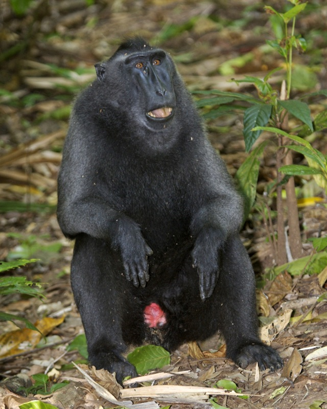 Crested Black Macaque, Sulawesi Crested Macaque, or the Black Ape Dominant male in group Staring with open mouth: This is the stare accompanied by the mouth being open but the teeth are covered (Estes, 1991). This is a threat expression (Estes, 1991). July 9, 2006 Habitat: Tangkoko National Park _Q0S0742